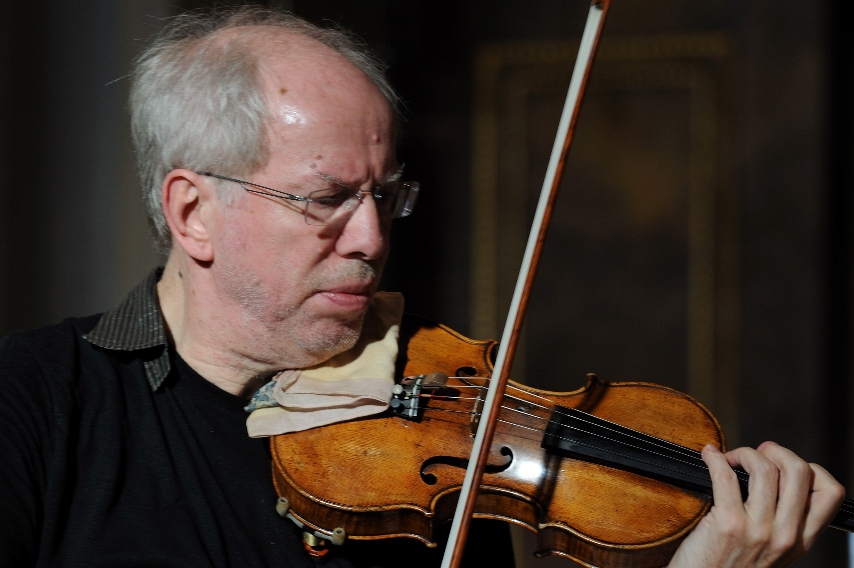 Gidon Kremer at Kammermusikfest Lockenhaus 2008